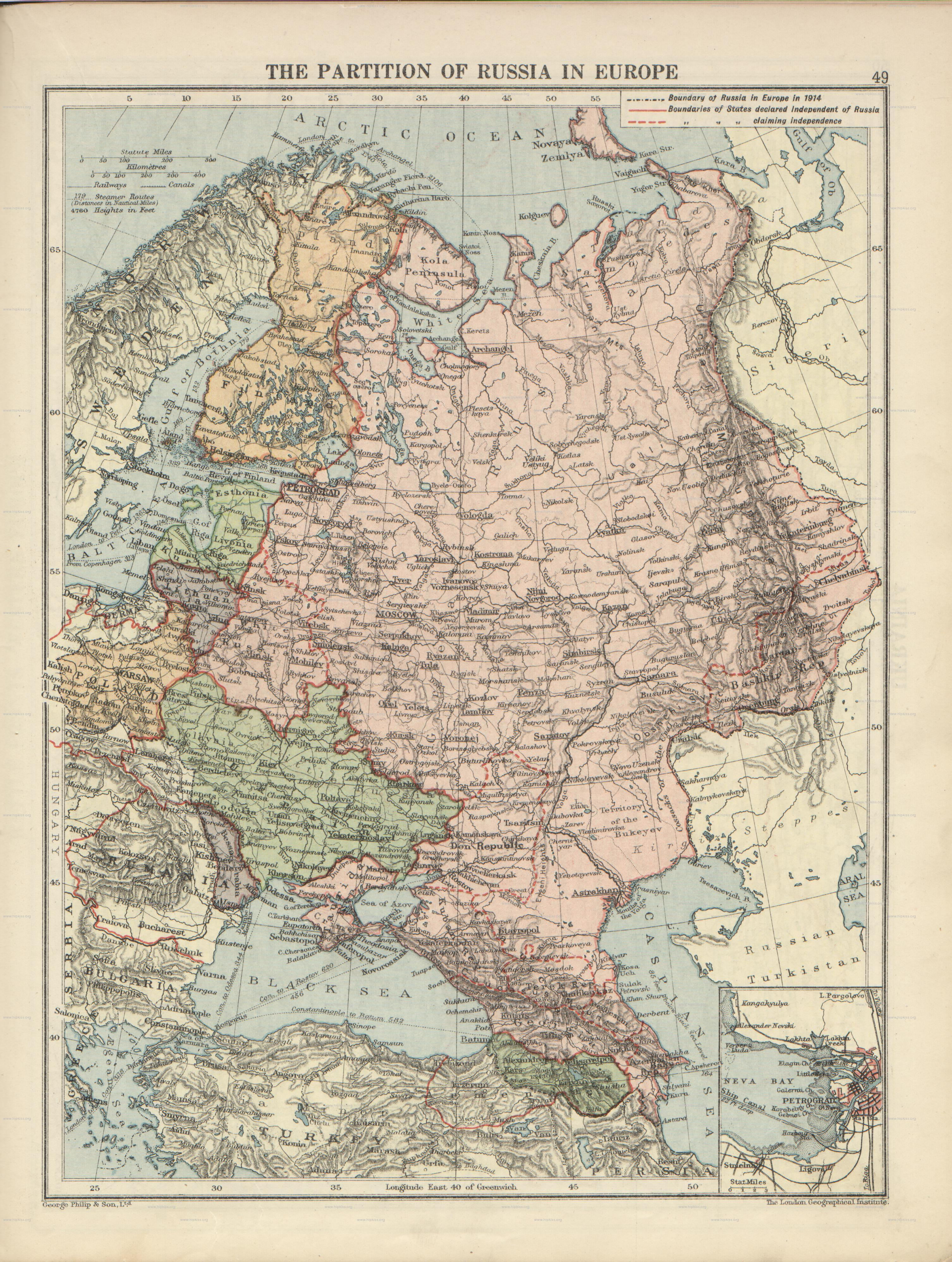 Partition of Russia in Europe (fall of the Russian Empire), from London Geographical Institute - The Peoples Atlas - 1920.